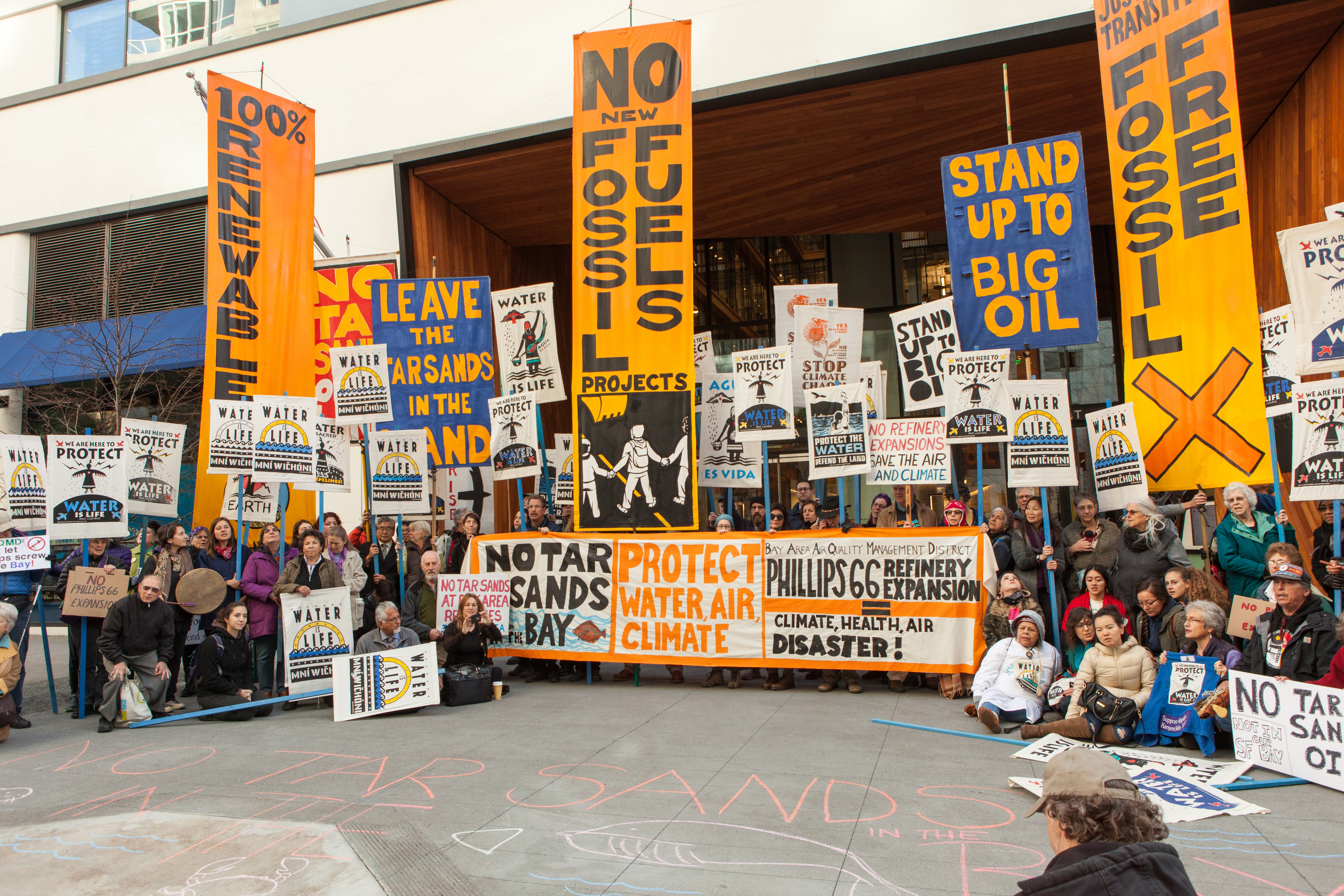 Protesters hold signs and banners outside the Bay Area Air Quality Management District in San Francisco.